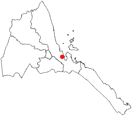 Zula, Eritrea Location Map; created with the GIMP. Made by Acntx.